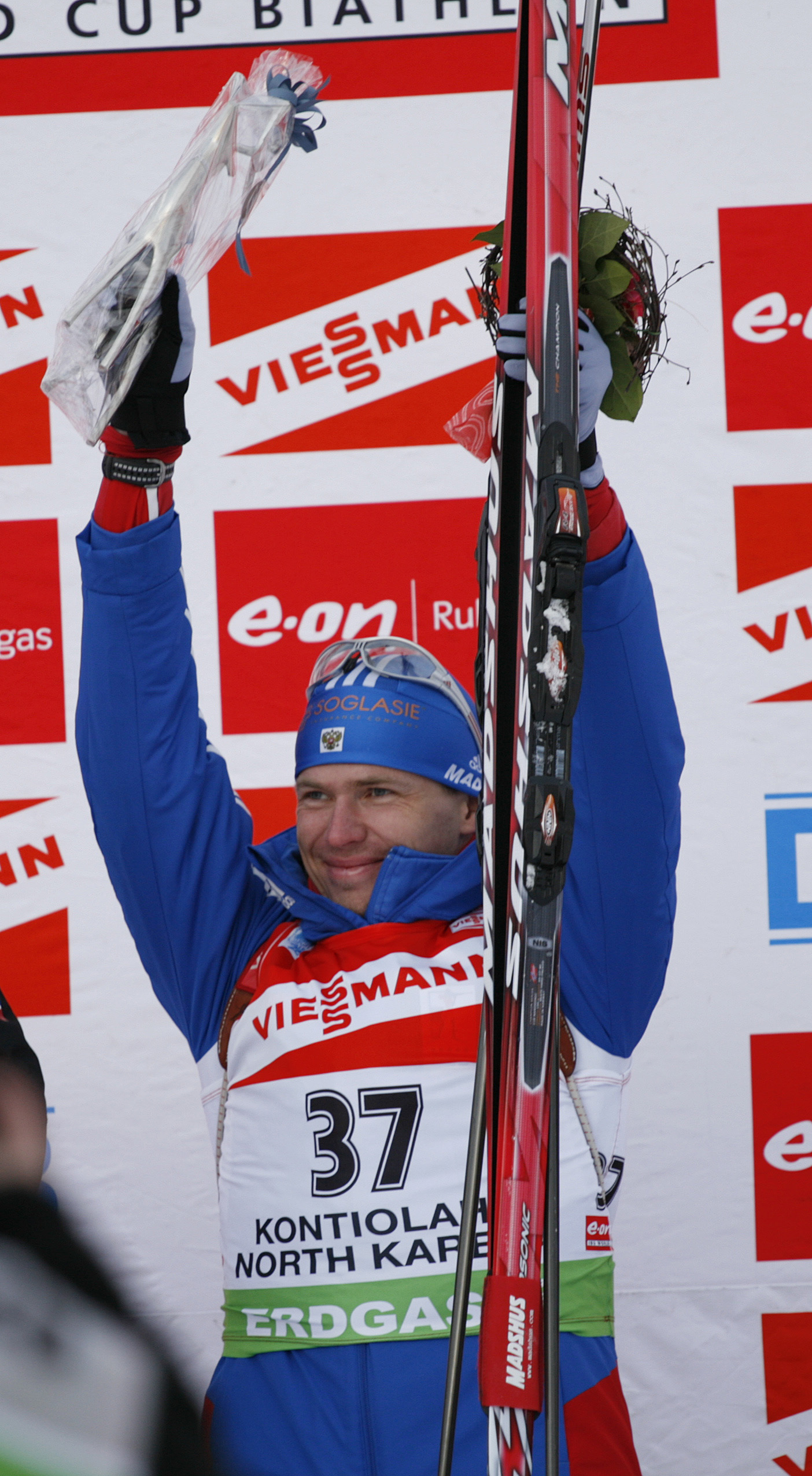 Ivan Tcherezov, winner of 10 km sprint, 13 March 2010, Kontiolahti.